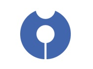 Flag of Misaki Osaka